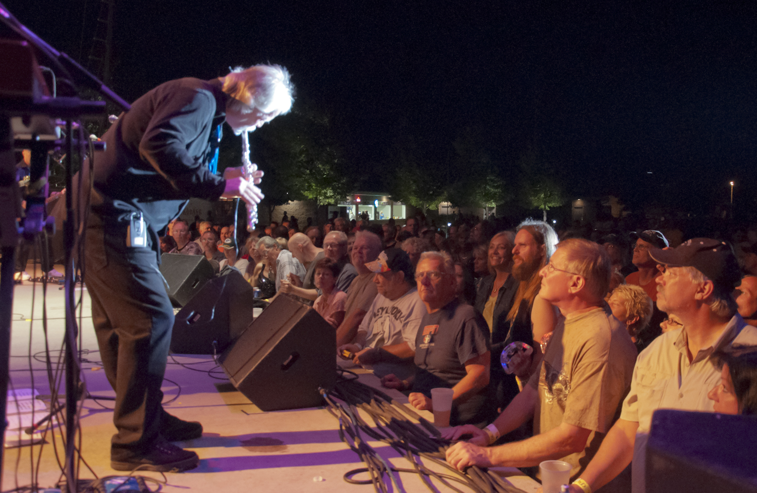 David performing with Boulder County Conspiracy at Waterfest in Oshkosh, Wi.